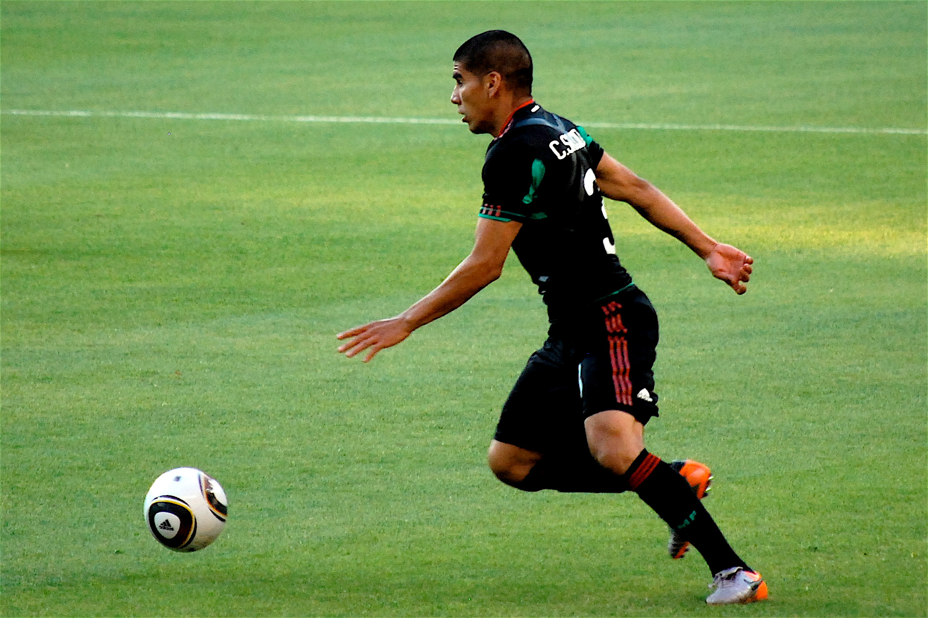 FIrst Match of the Fifa World Cup - Mexico VS South Africa - In Soccer City, Johannesburg